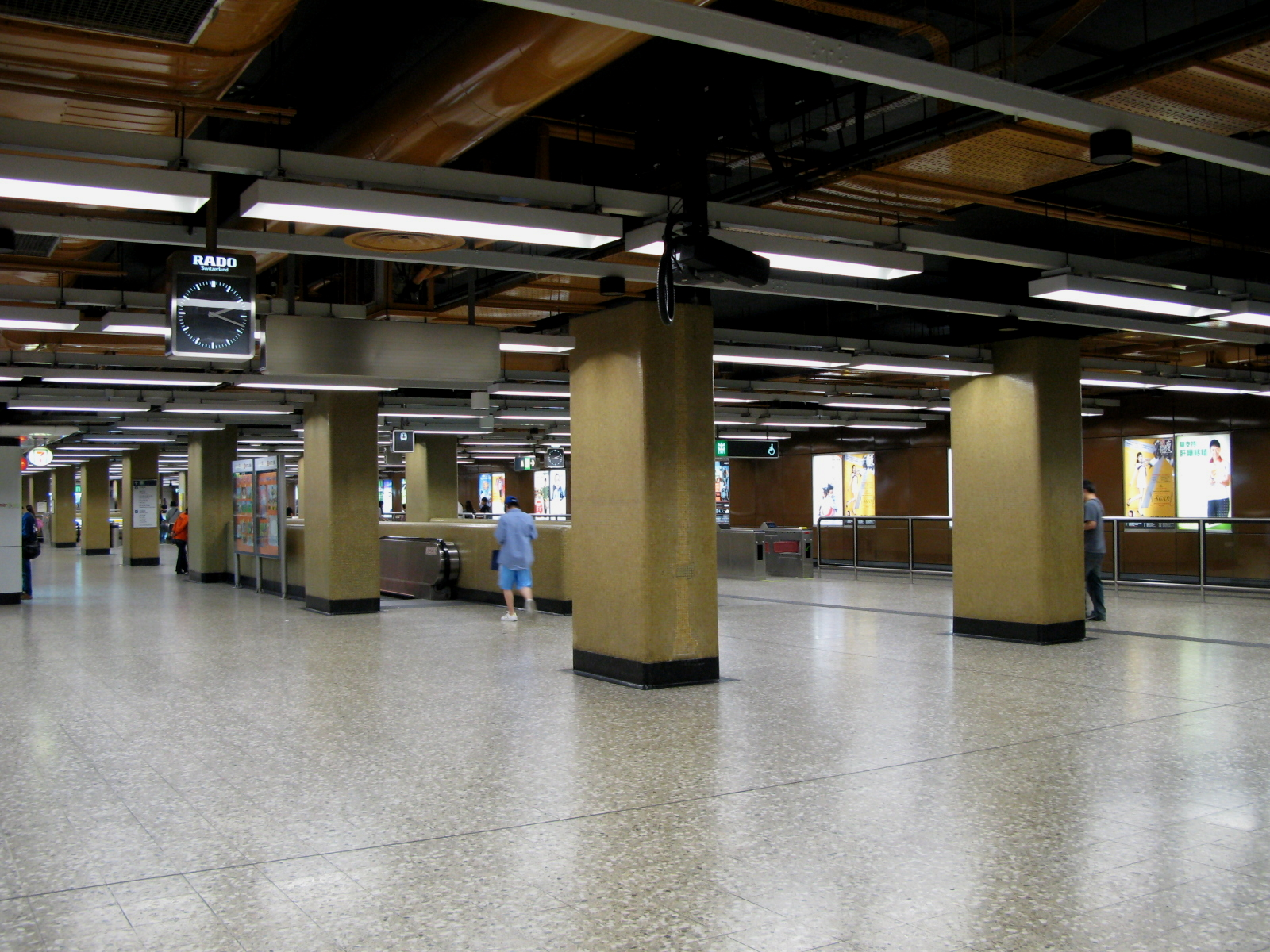 HK MTR Cheung Sha Wan Station Platform